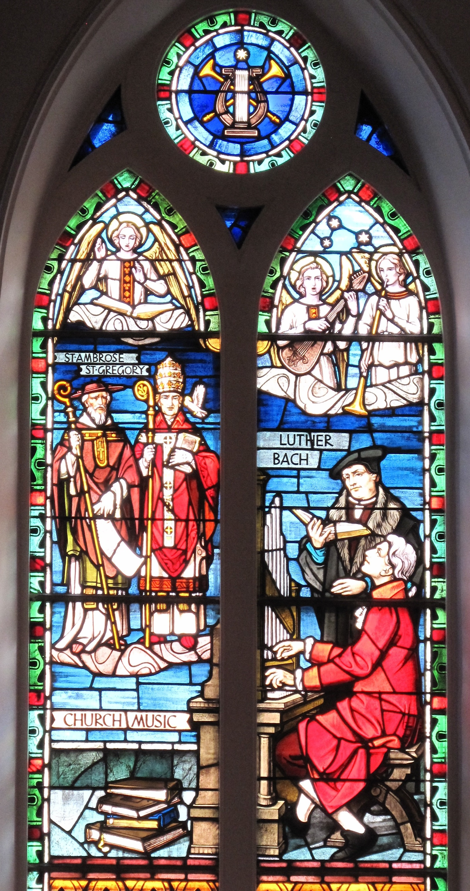 Church Music stained glass window at St. Matthew's Lutheran Church in Charleston, SC. Designed by the studio of Franz Mayer & Co. of Munich, Germany represented by the studios of George L. Payne of Patterson, New Jersey 1966.